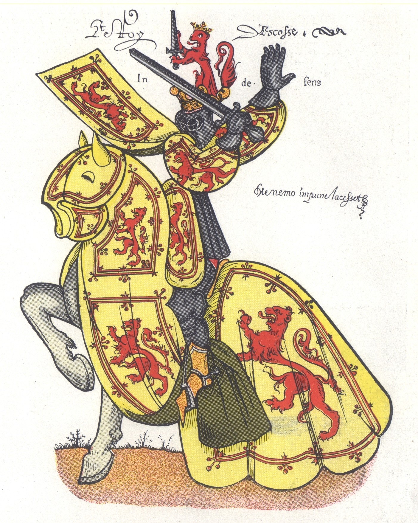 A 15thC armorial depiction of the King of Scots, showing the arms of William the Lion, as adopted by Scotland's later kings who added the tressure featuring the French fleur-de-lys symbolising the traditional Franco-Scottish alliance against England. Below the title 'Le Roy d'Escosse' appear the mottoes of the Royal Stewart kings of Scotland: 'In defens' and 'Me nemo impune lacessit' [No-one damages me with impunity].